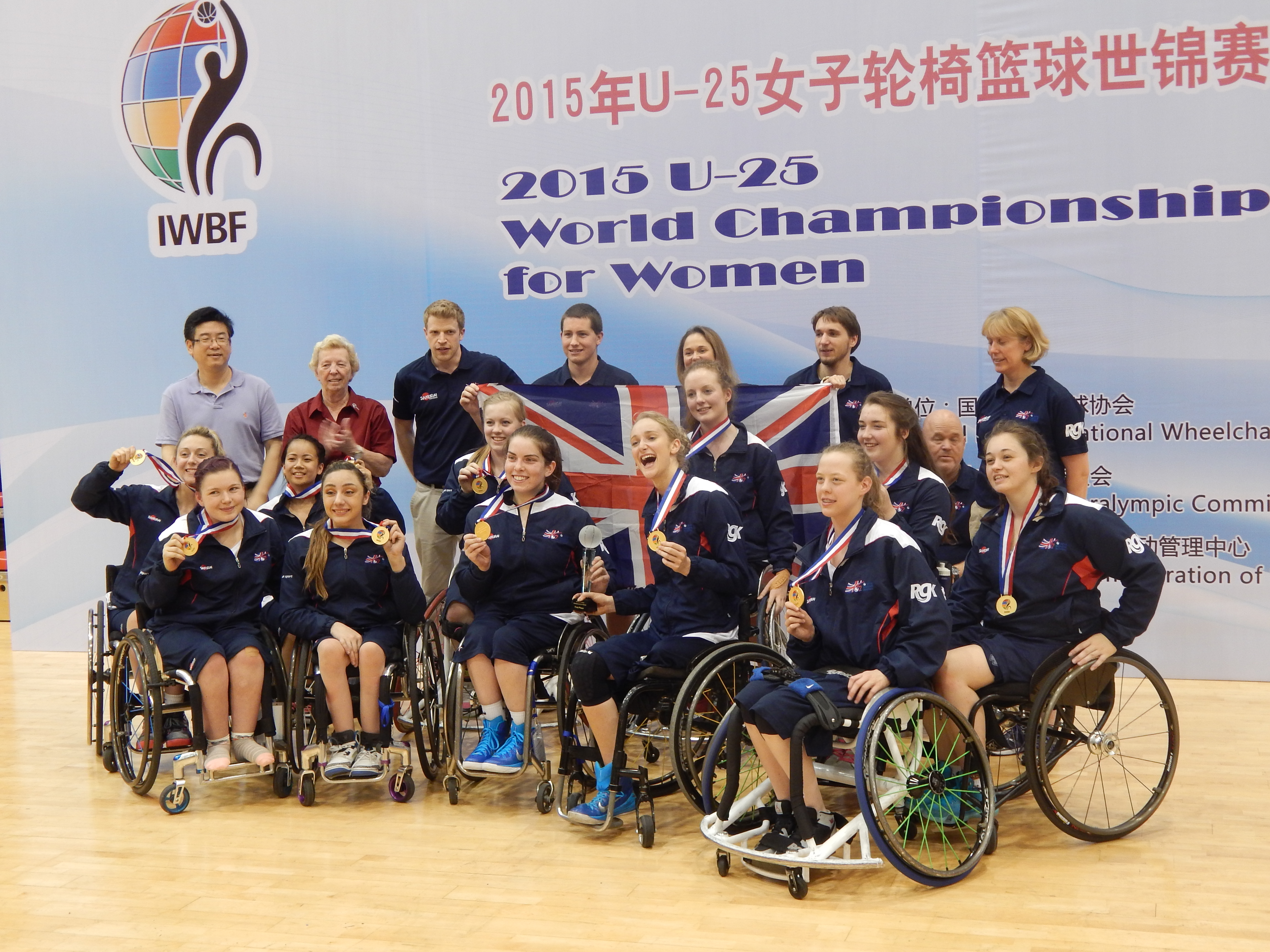 Team Great Britain - Gold medallists at the 2015 Women's U25 Wheelchair Basketball World Championship. Players are, front row, left to right: Frances Ray, Charlotte Moore, Laurie Williams, Amy Conroy, Leah Evans. Second row, left to right: Sophie Carrigill, Joy-Lan Haizelden, Meagan Wood, Siobhan Fitzpatrick, Katie Morrow, Jordanna Bartlett